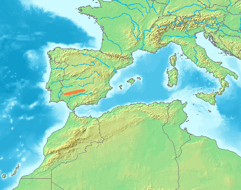 Locator maps for mountain ranges